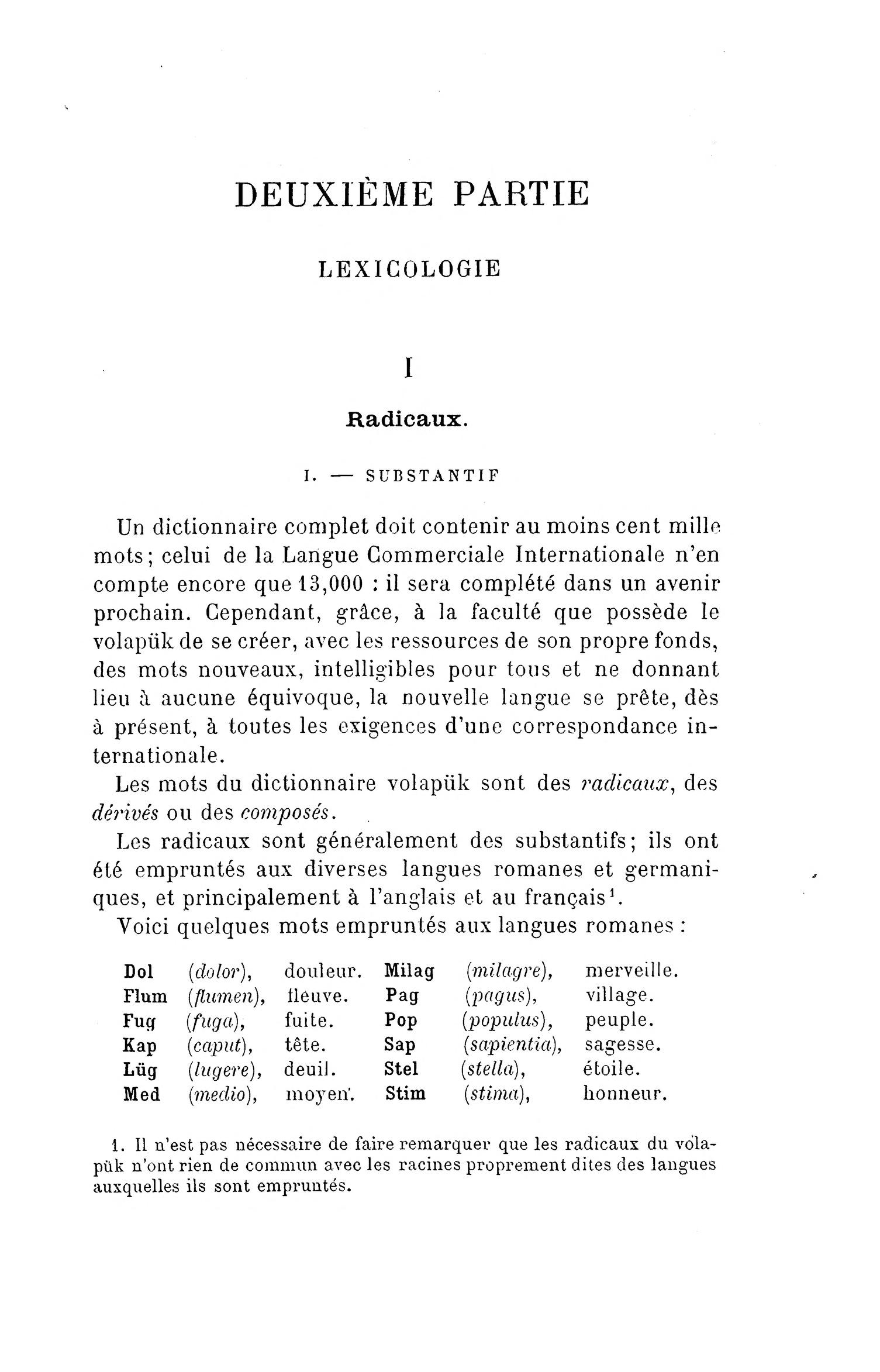 Reproduction of p. 63